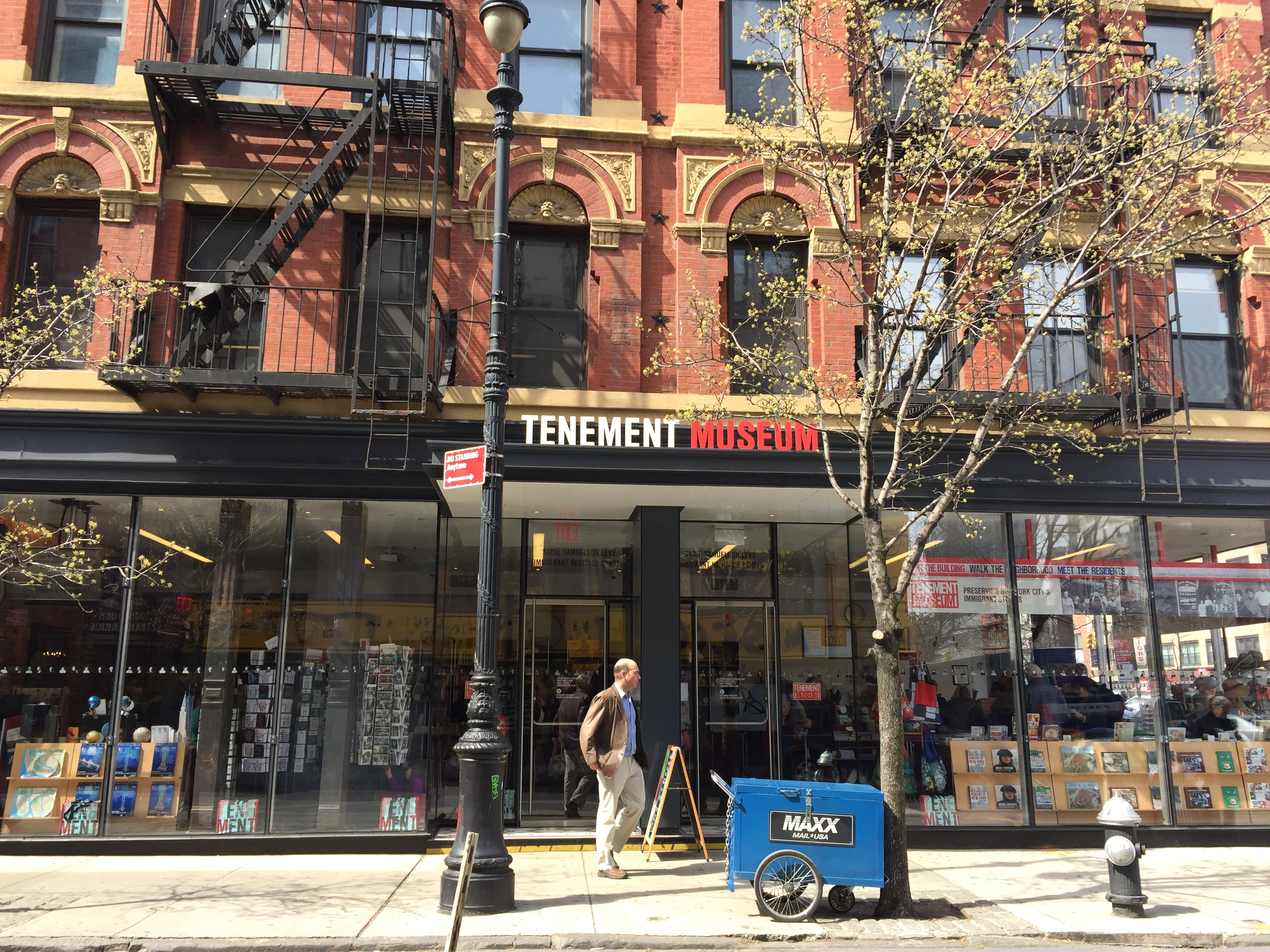 Orchard Street